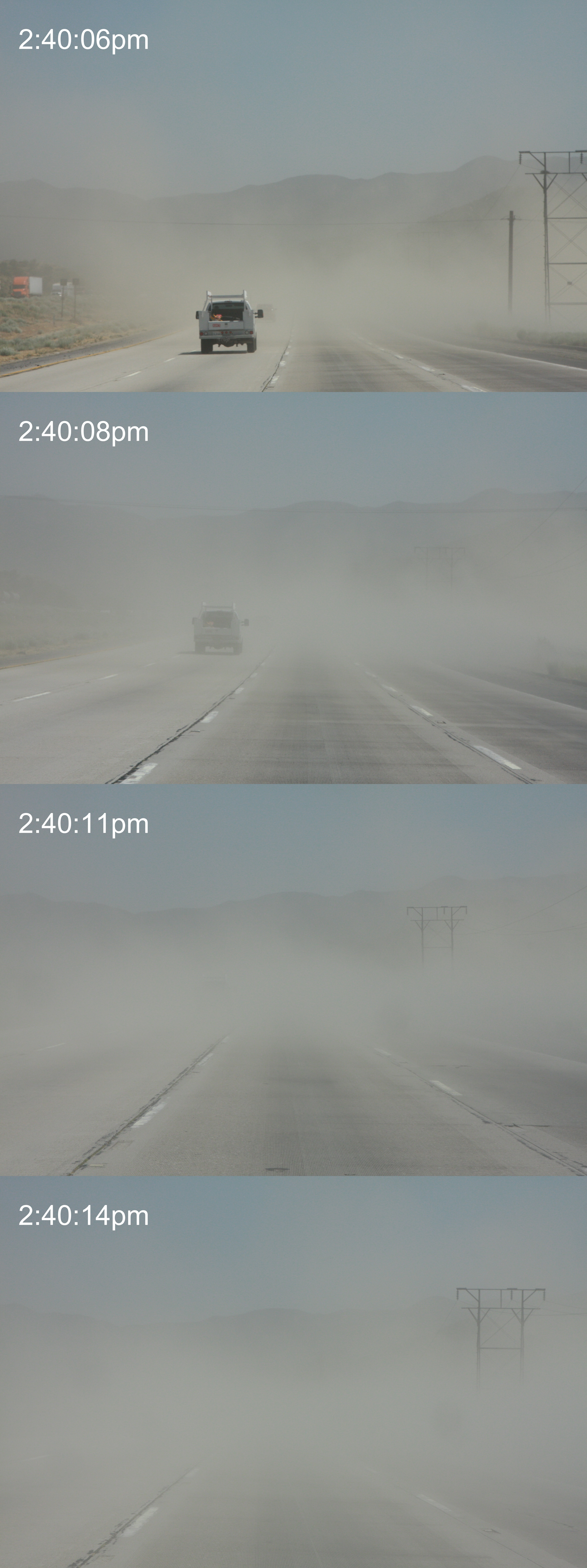 Time-lapse exposure of a dust storm along highway I-5 southbound in southern California, USA. The 4 frames together records a total duration of 8 seconds.